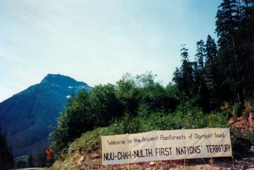 Banner of the Nuu-Chah-Nulth First Nations' People, the original inhabitants of the Clayoquot Sound area.